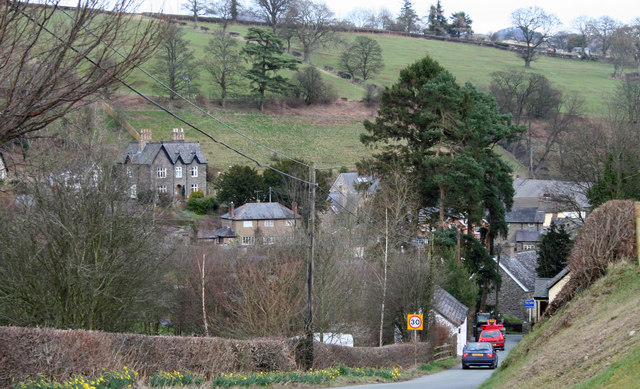 Slow Down Steep road into Llanrhaeadr-ym-Monchnant.